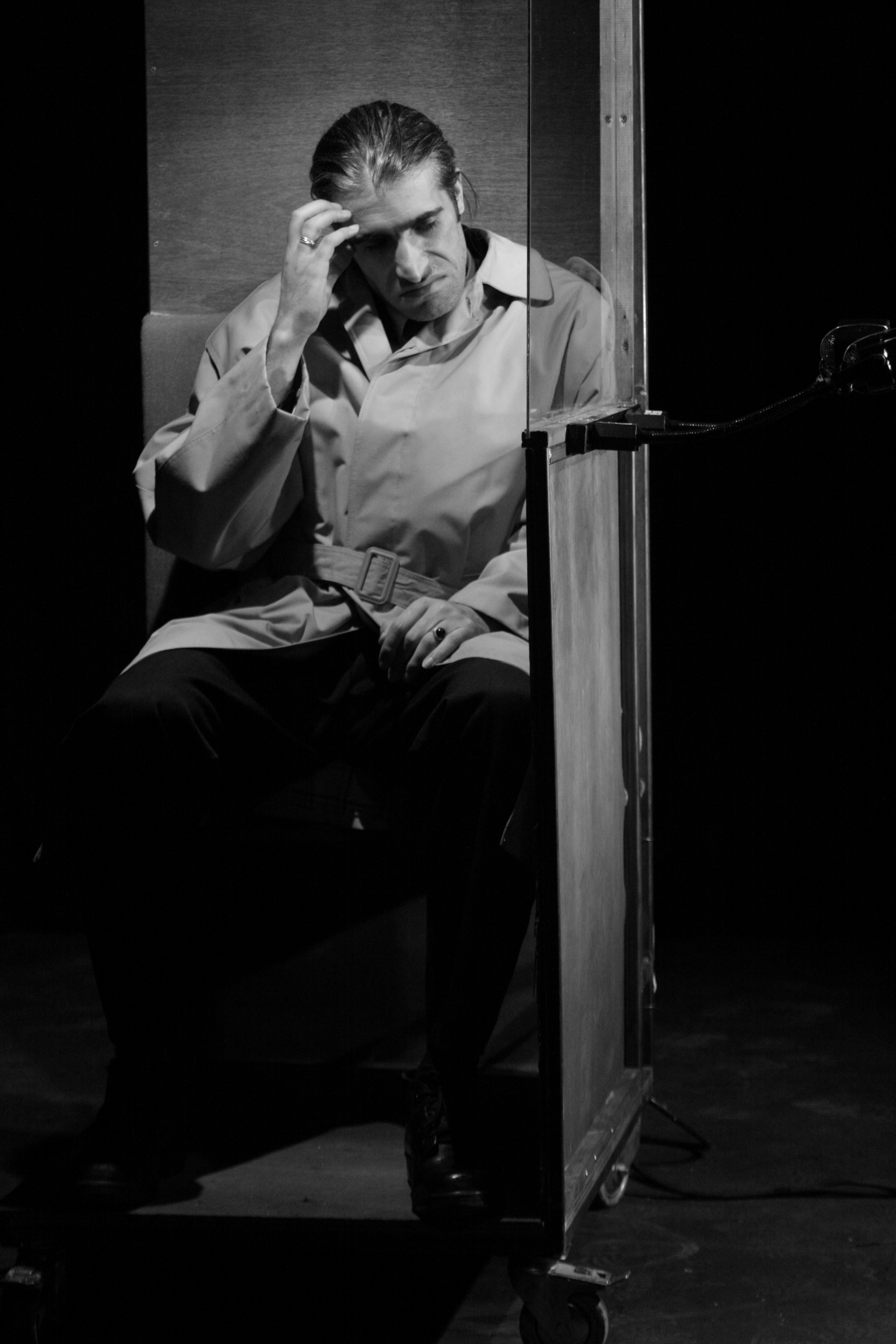 Actor Mehdi Bajestani